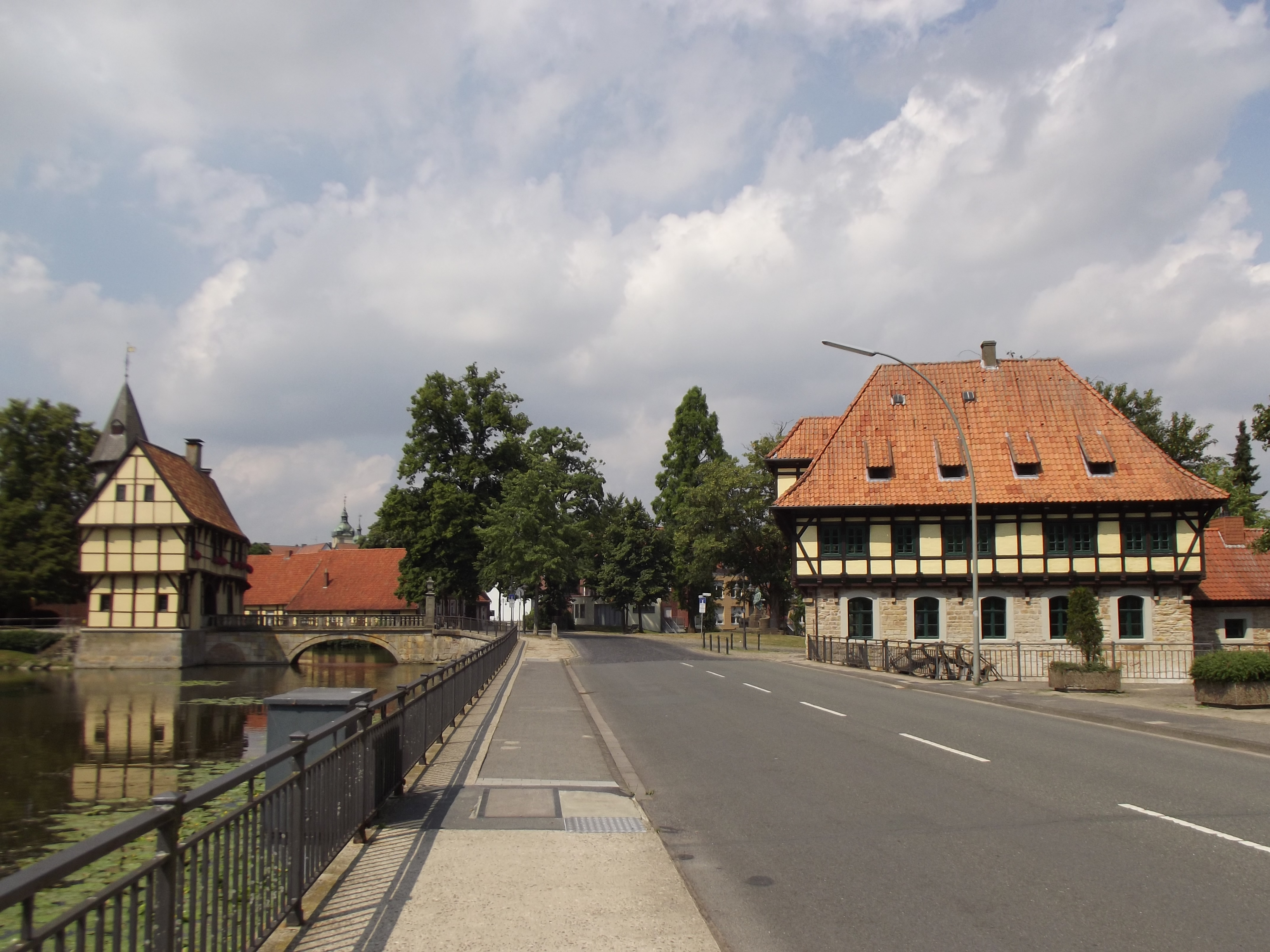 The castle (Schloss) on the left and the mill belonging to the castle ("Schlossmühle") on the right#